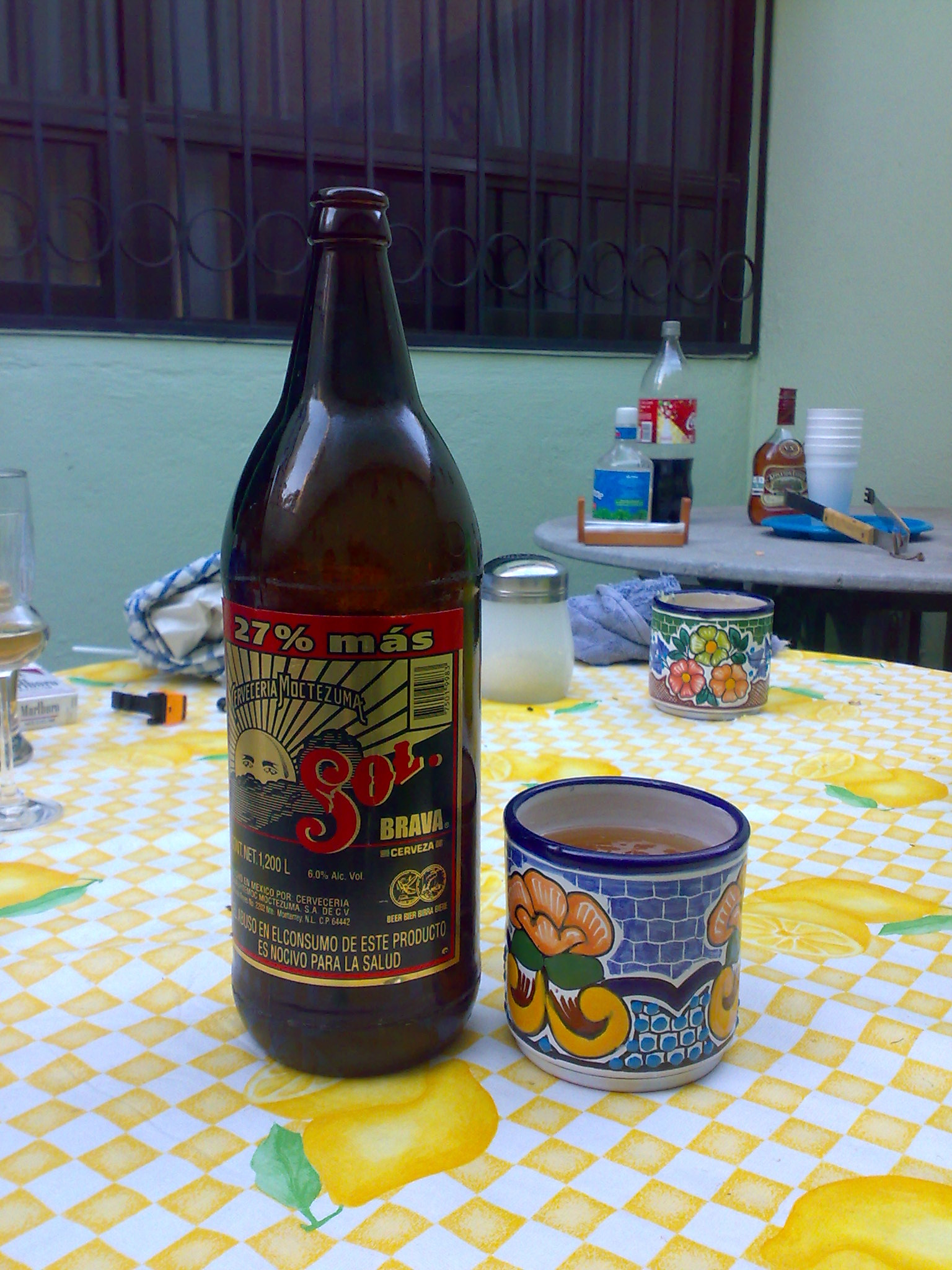 A bottle of Sol Brava